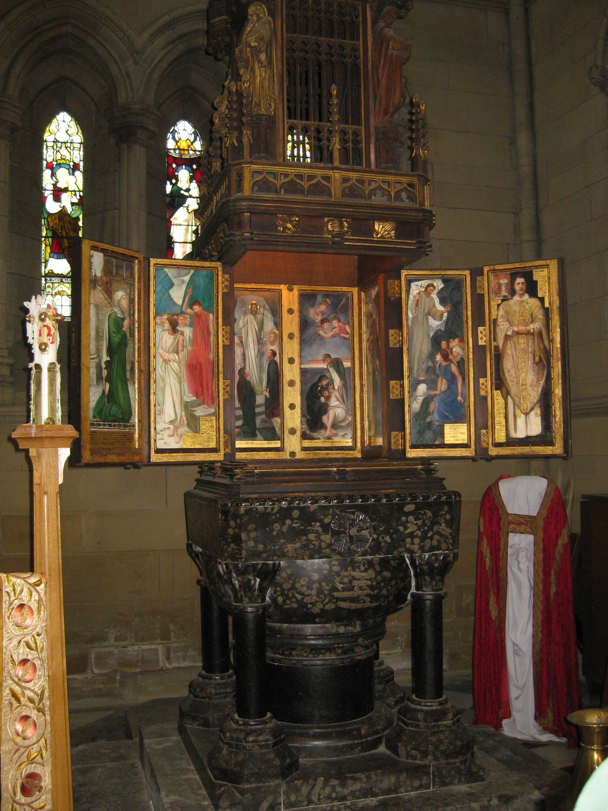 All Souls Church, Blackman Lane, Leeds LS2 9EY. Baptismal font in fossilifereous stone. Font cover donated by and panels painted by Emily Ford, who was baptised as an adult there in 1890.